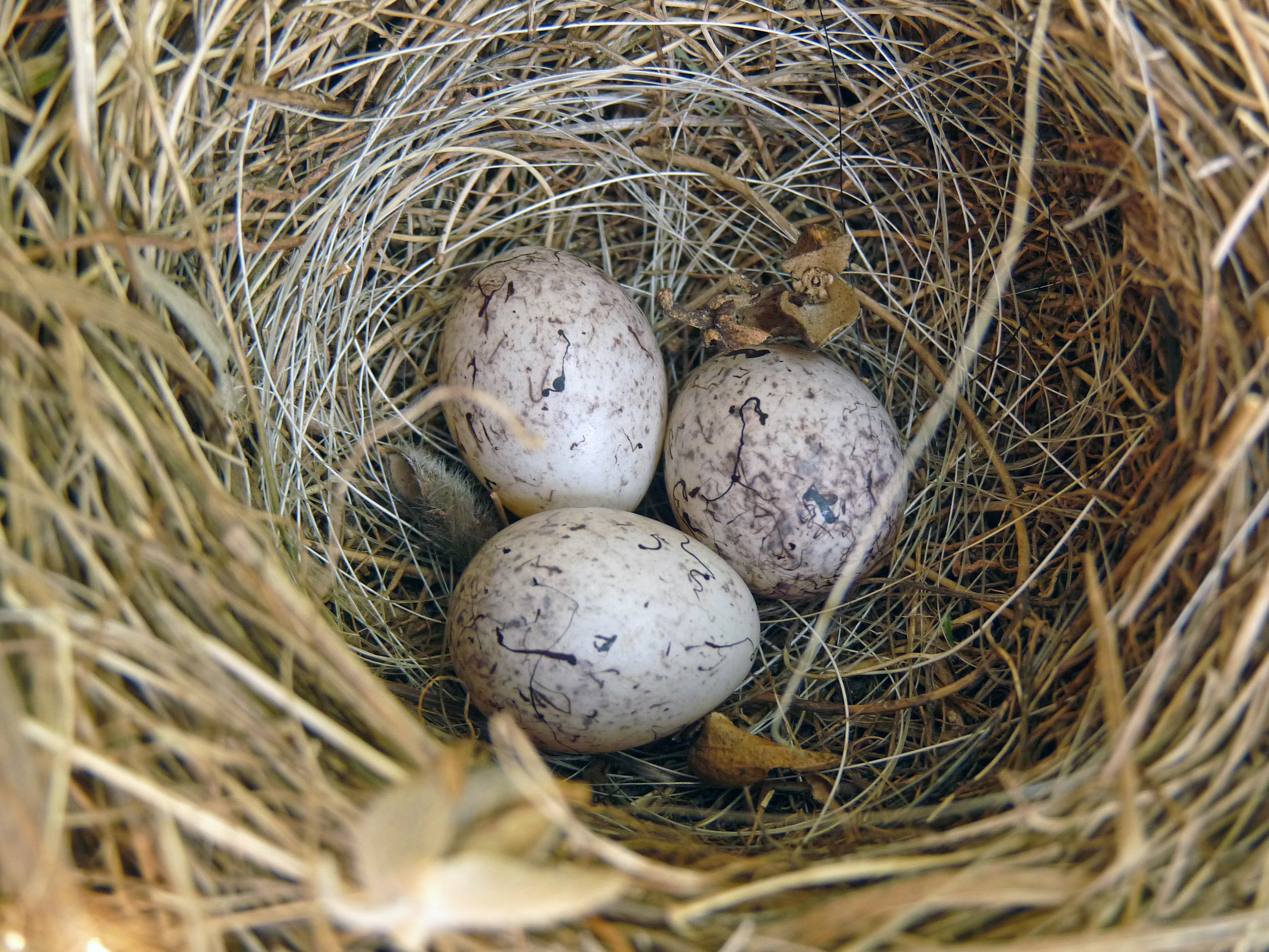 Latin name Emberiza citrinella Family Buntings (Emberizidae) Overview Males are unmistakeable with a bright yellow head and underparts, brown back... Where to see them ... When to see them All year round What they eat Seeds and insects